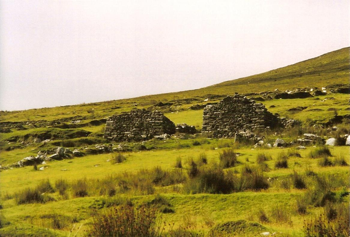 Deserted Village at Slivemore on Achill Island